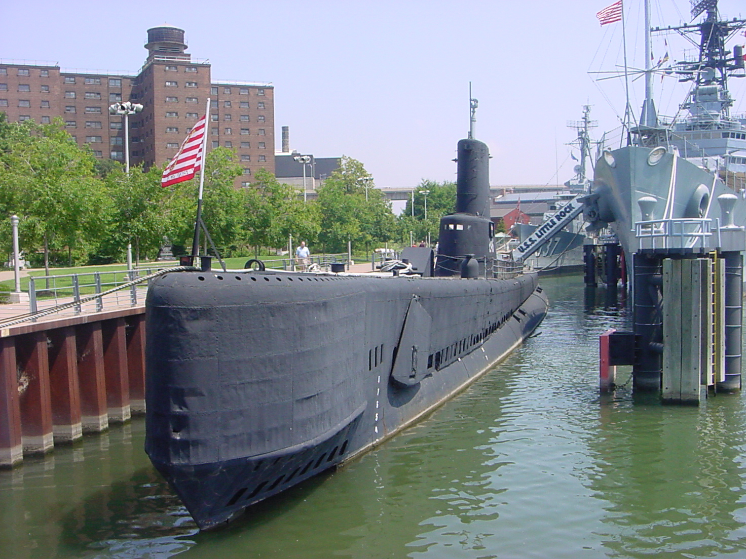 Photo of U.S.S. CroakerShinerunner 03:55, 19 July 2007 (UTC)